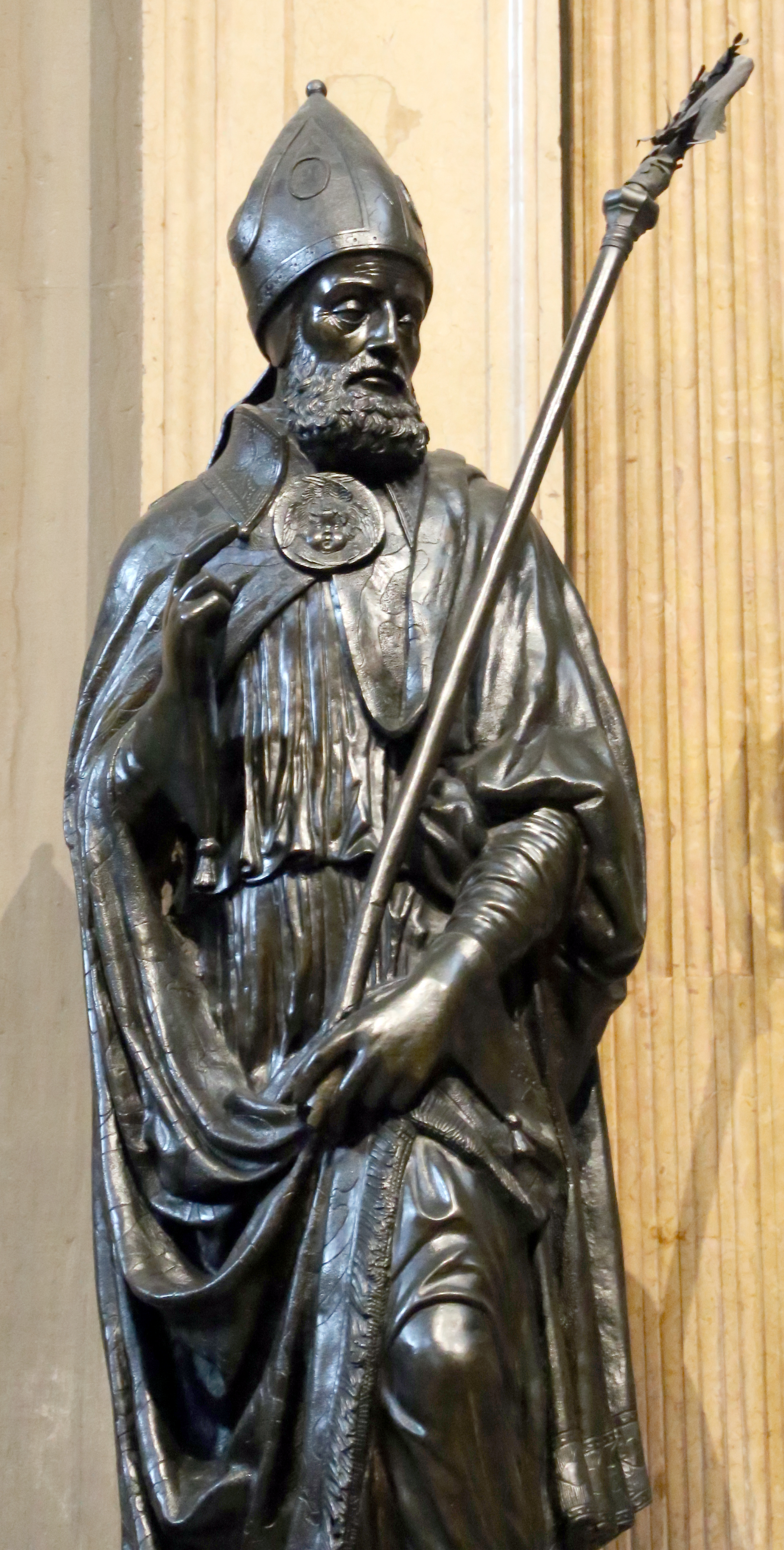 Cathedral (Ferrara) - Interior